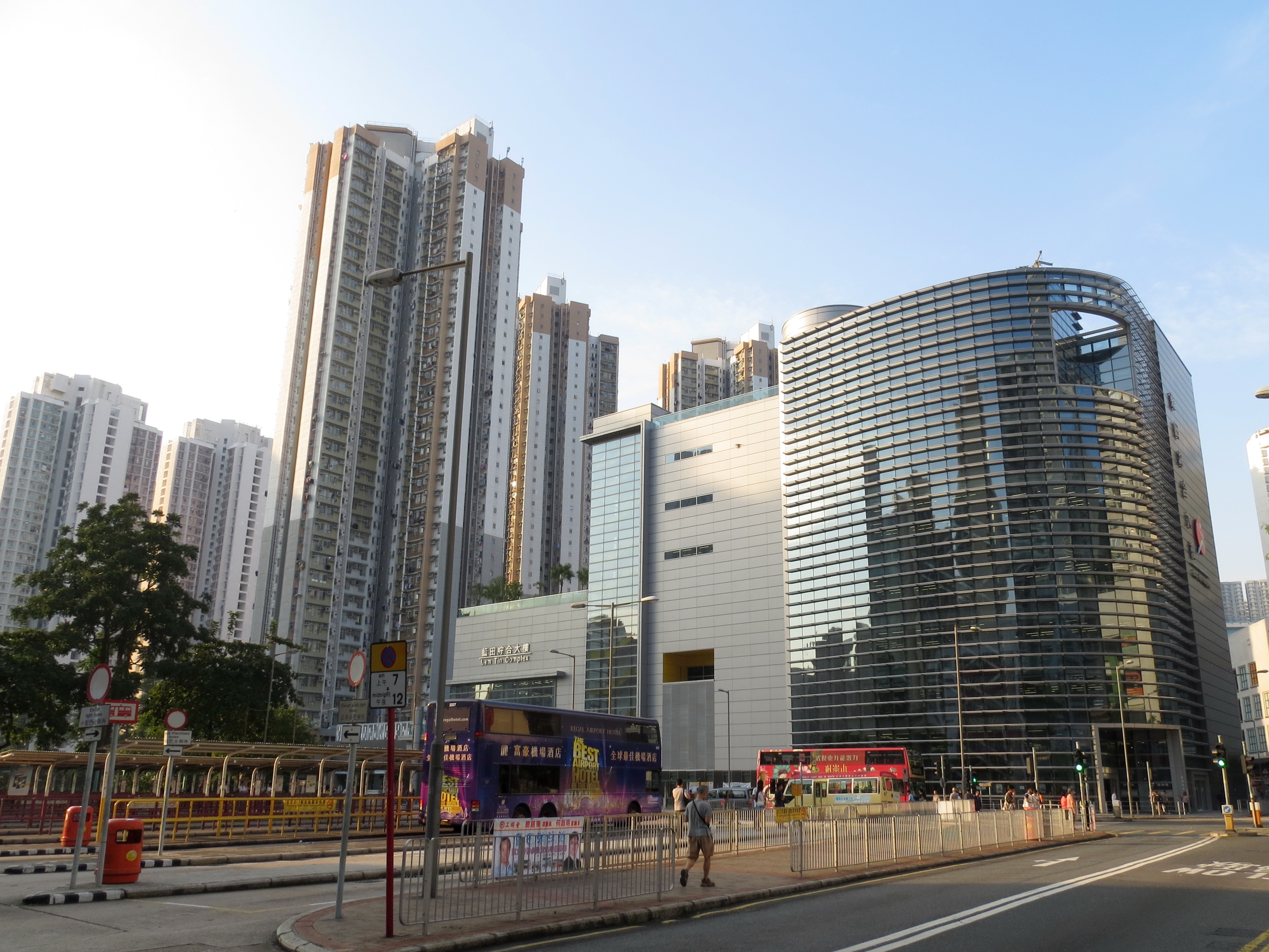 Lam Tin (North) Bus Terminus and Lam Tin Complex, Kowloon, Hong Kong.